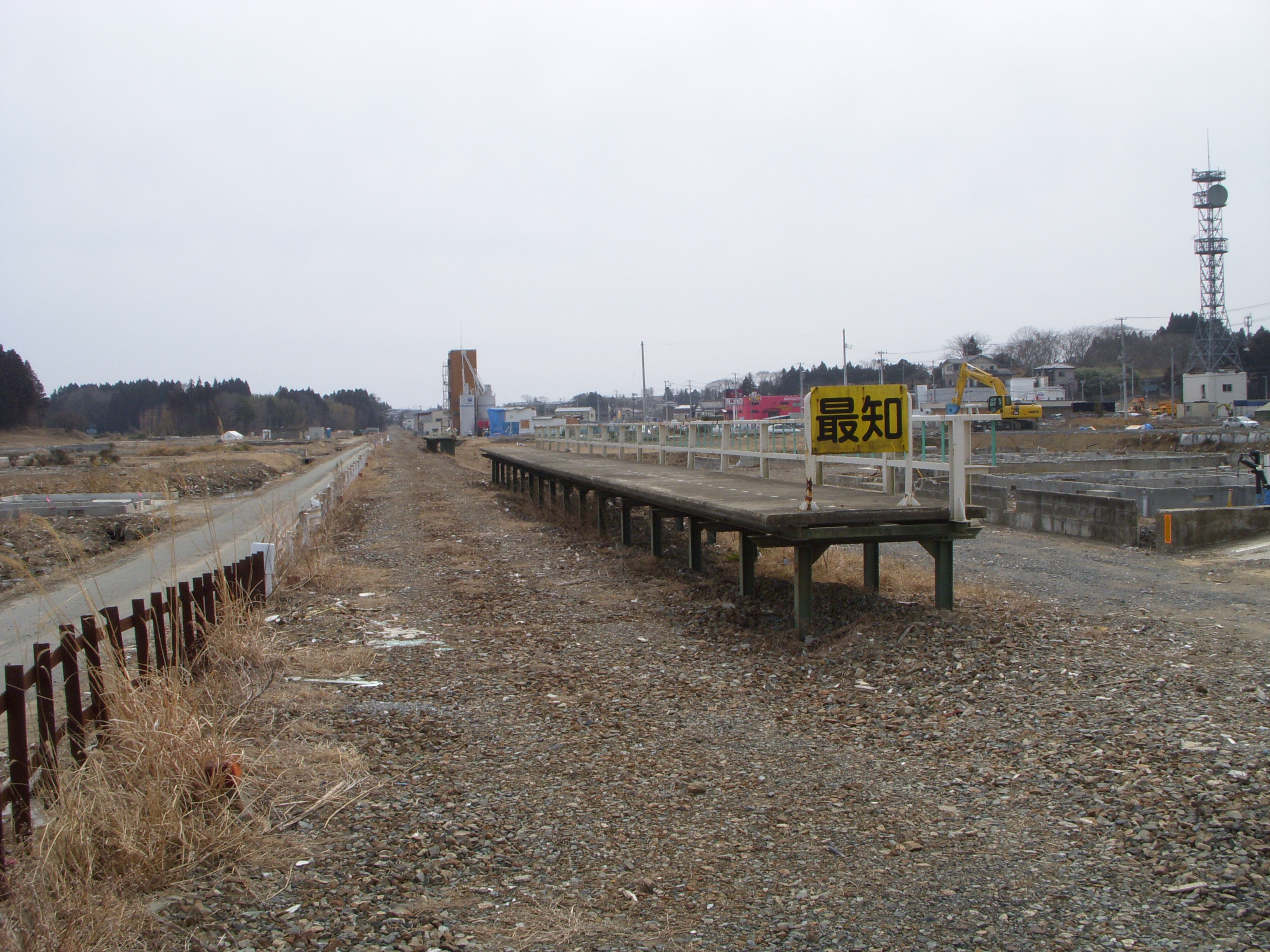 Saichi unmanned station in 1 year later of Tohoku great tsunami